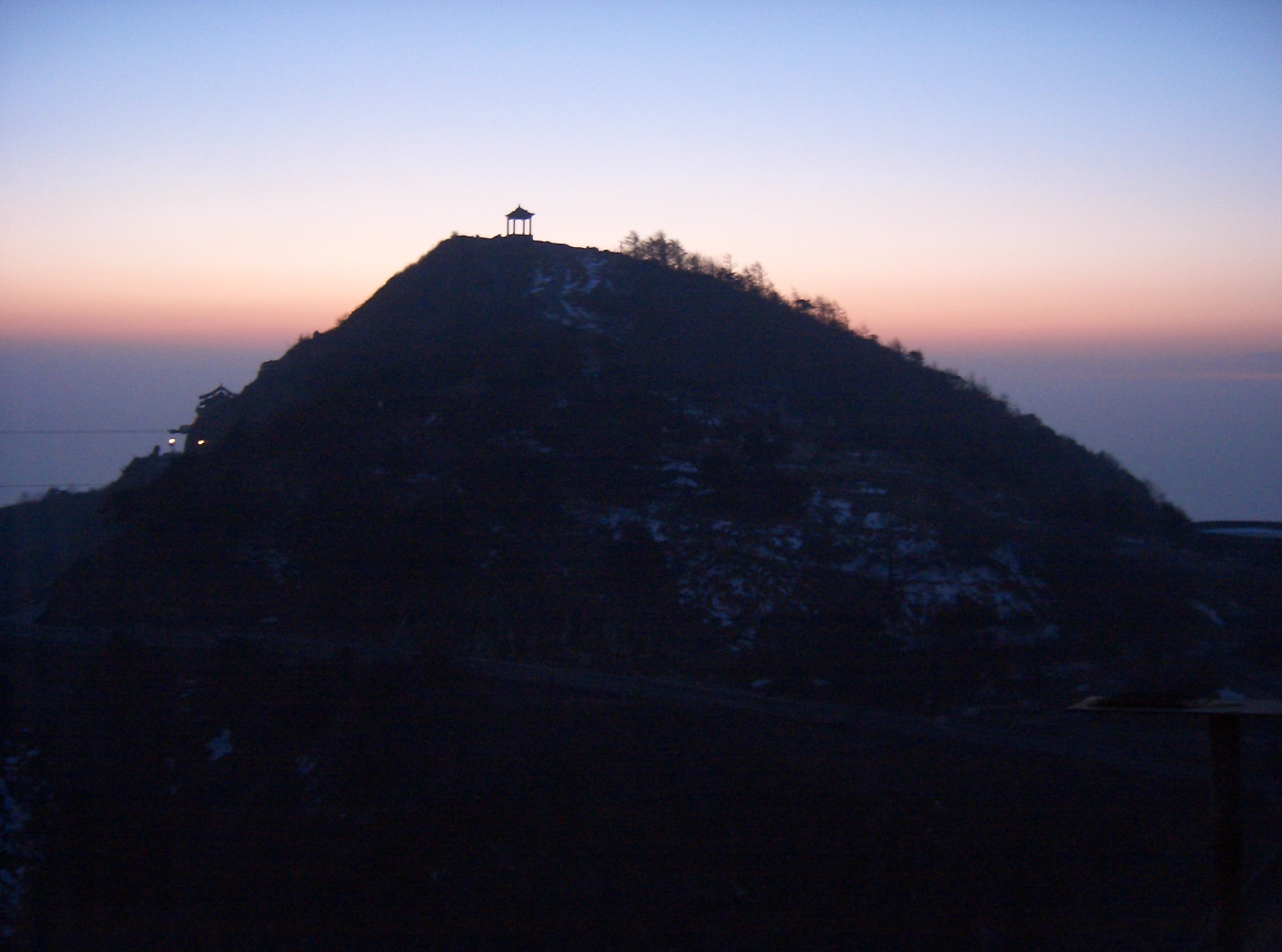 Sunset at Mt Tai in Shandong province, China.